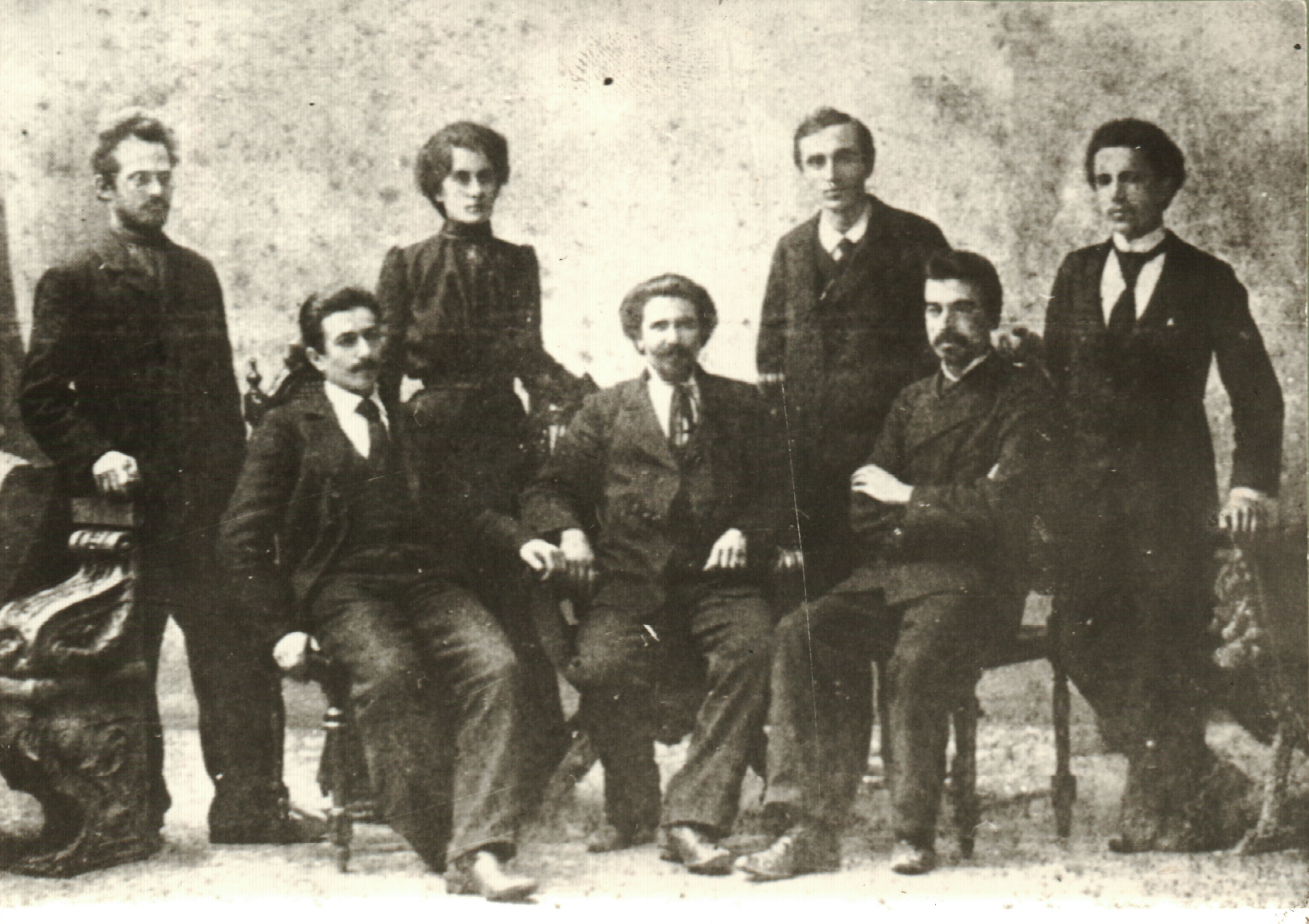 Socialistic class in Bulgaria - Peyo Yavorov, Tsanko Tserkovski, Dimitar Dimitrov, prof. Iliya Yankulov, Evgeniya Dimitrova.